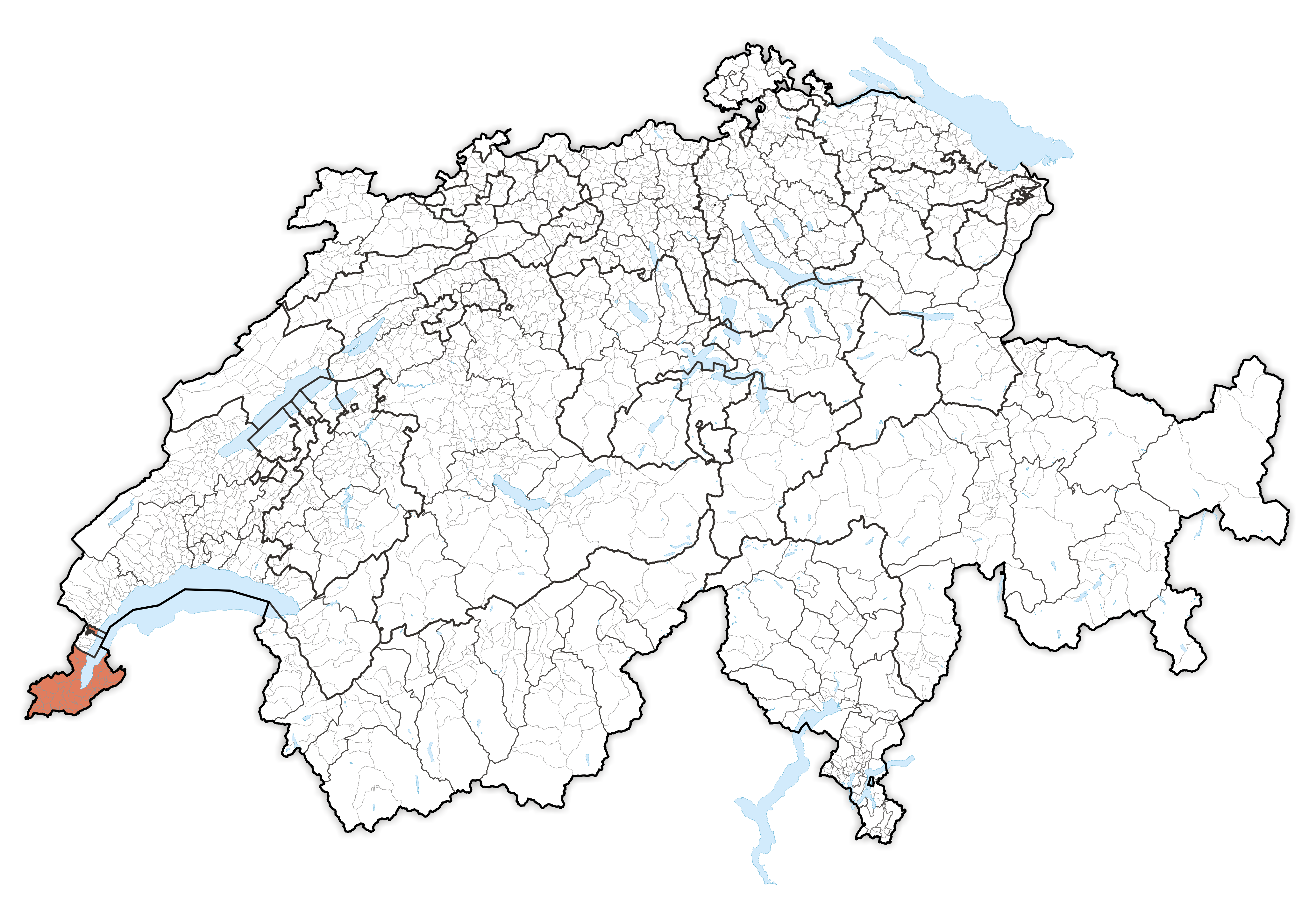 Canton Genf